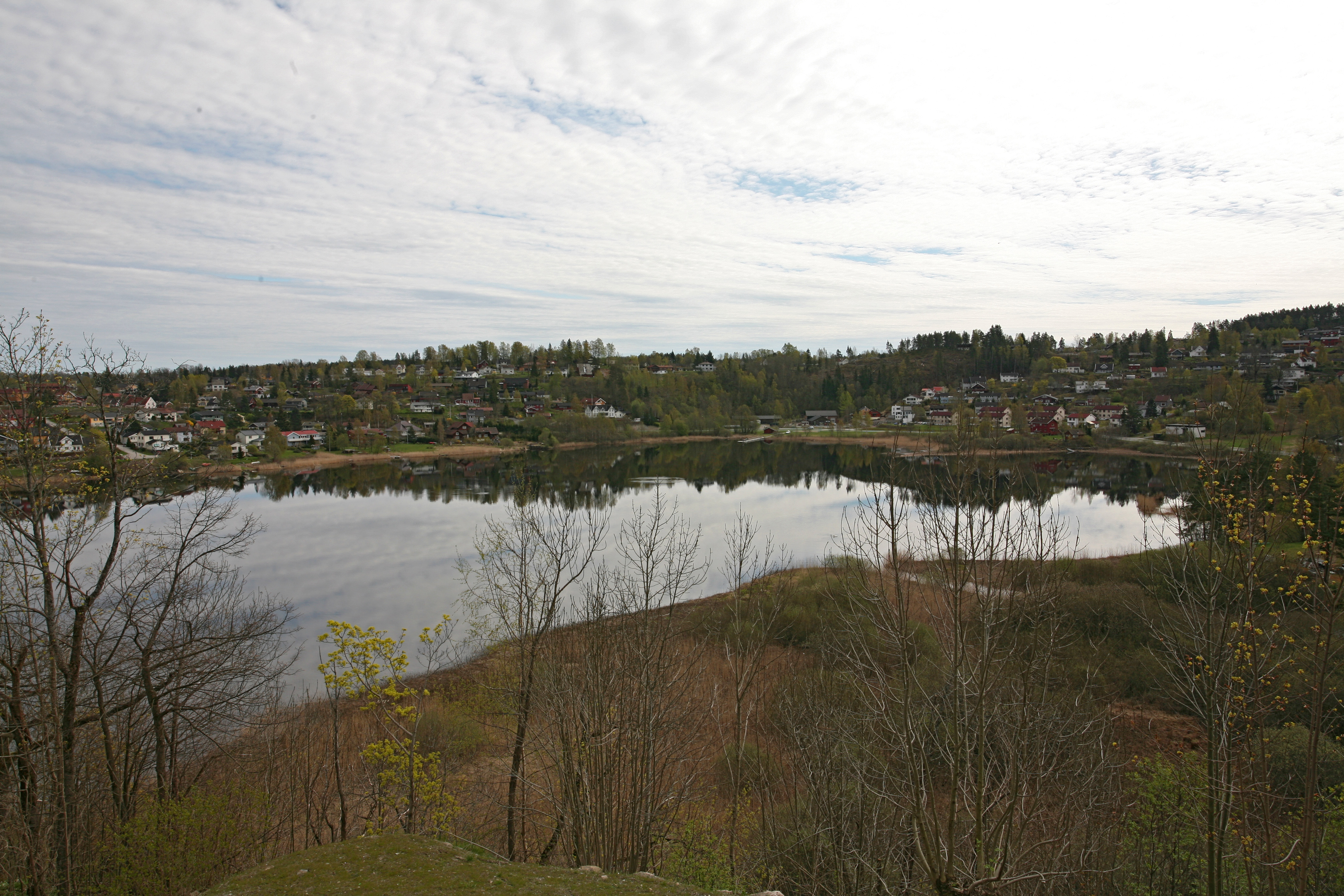 Picture of Gjellumvannet (Akershus - Norway)